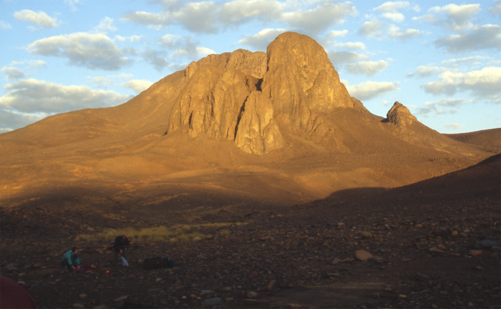 View of Mt Tahat, Hoggar, Algeria